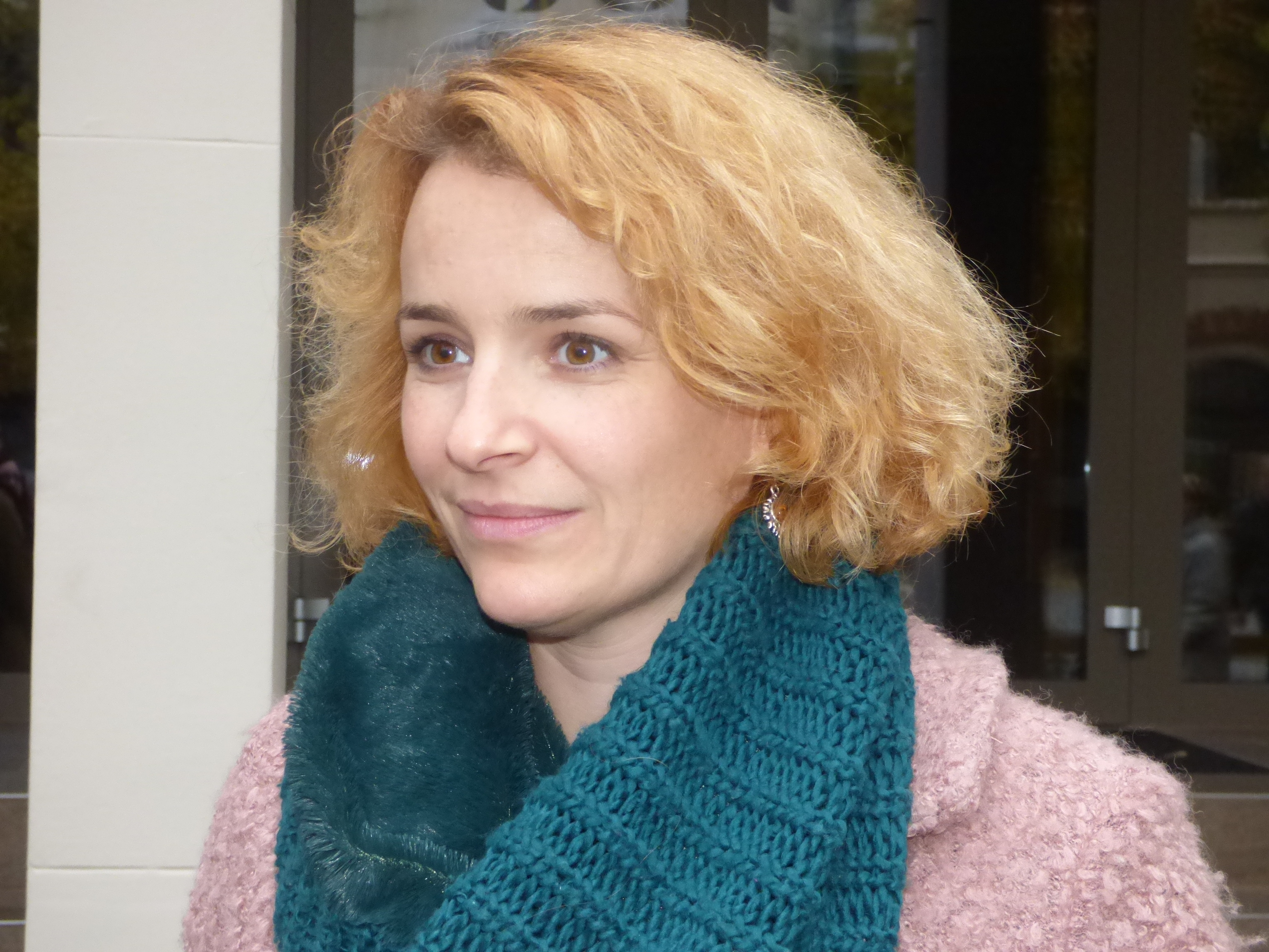 Frank Ildikó, a Magyarországi Német Színház igazgatója